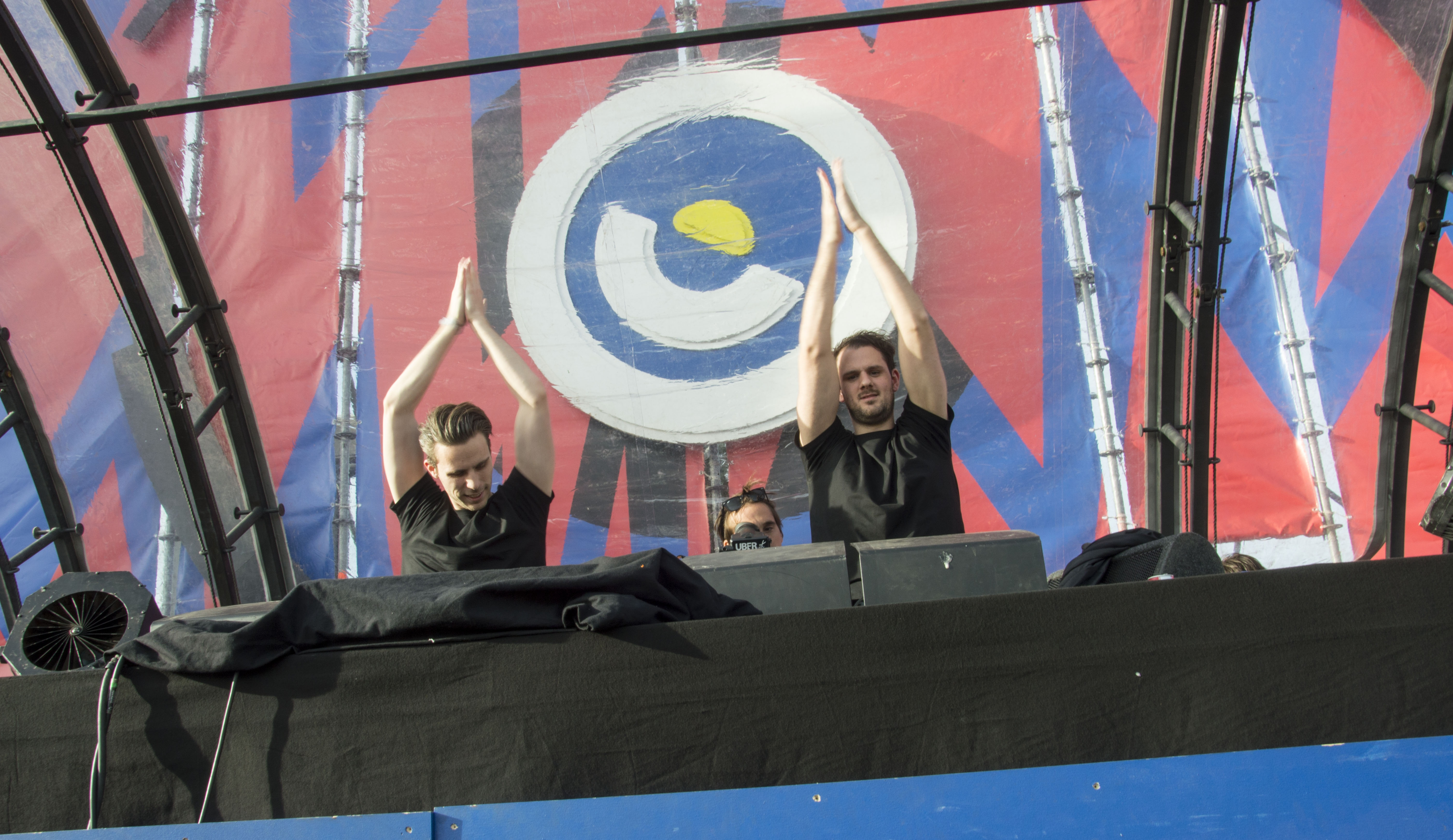 W&W playing live at Breda Dance Music Festival 2017